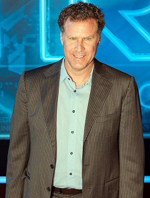 Will Ferrell at the Tron: Legacy Premiere 2010.